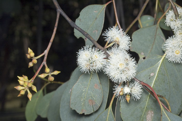 Flowers of Eucalyptus camphora subsp. humeana in the Alpine National Park in Victoria